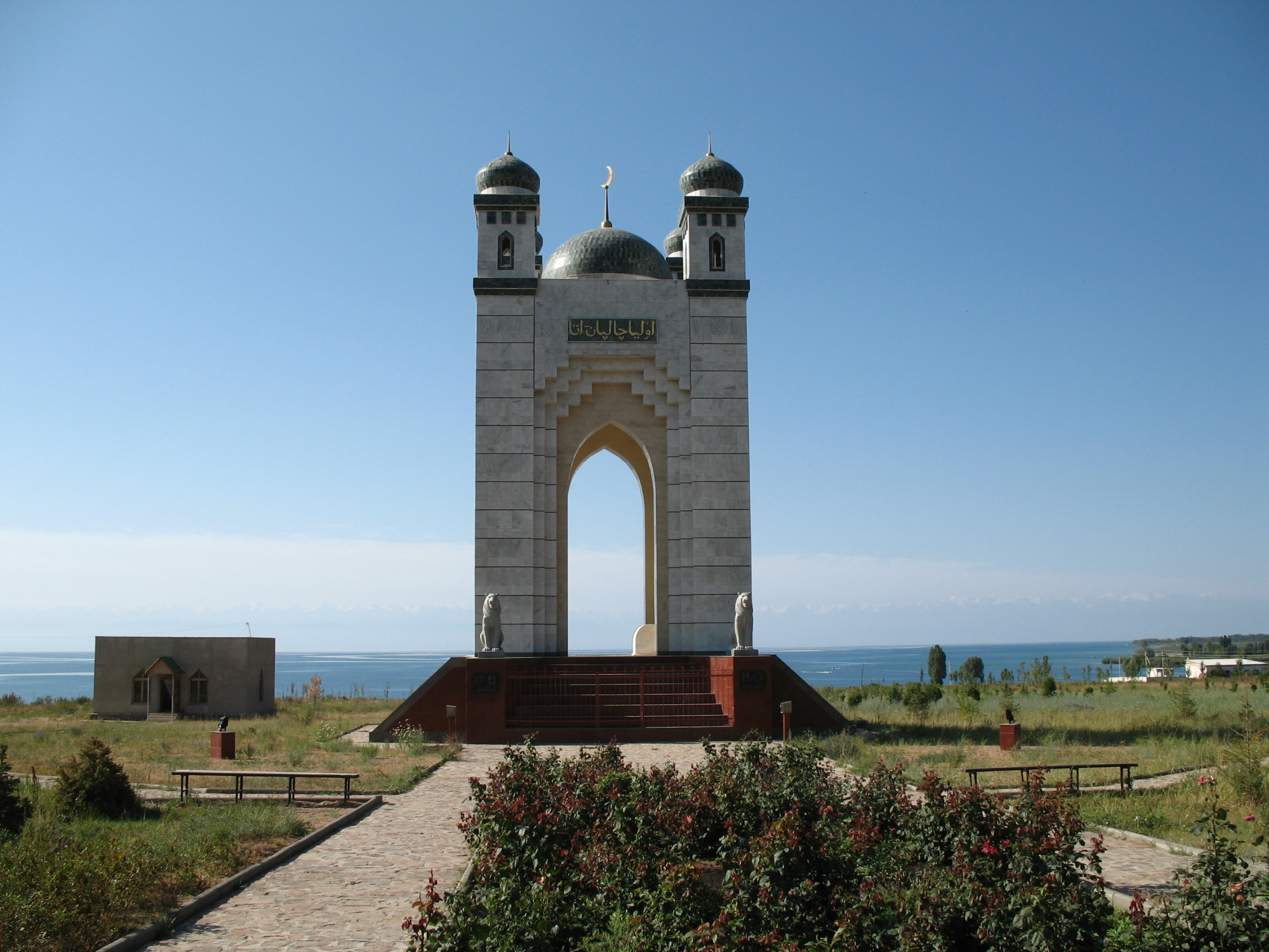 Monument near Cholpon-Ata city